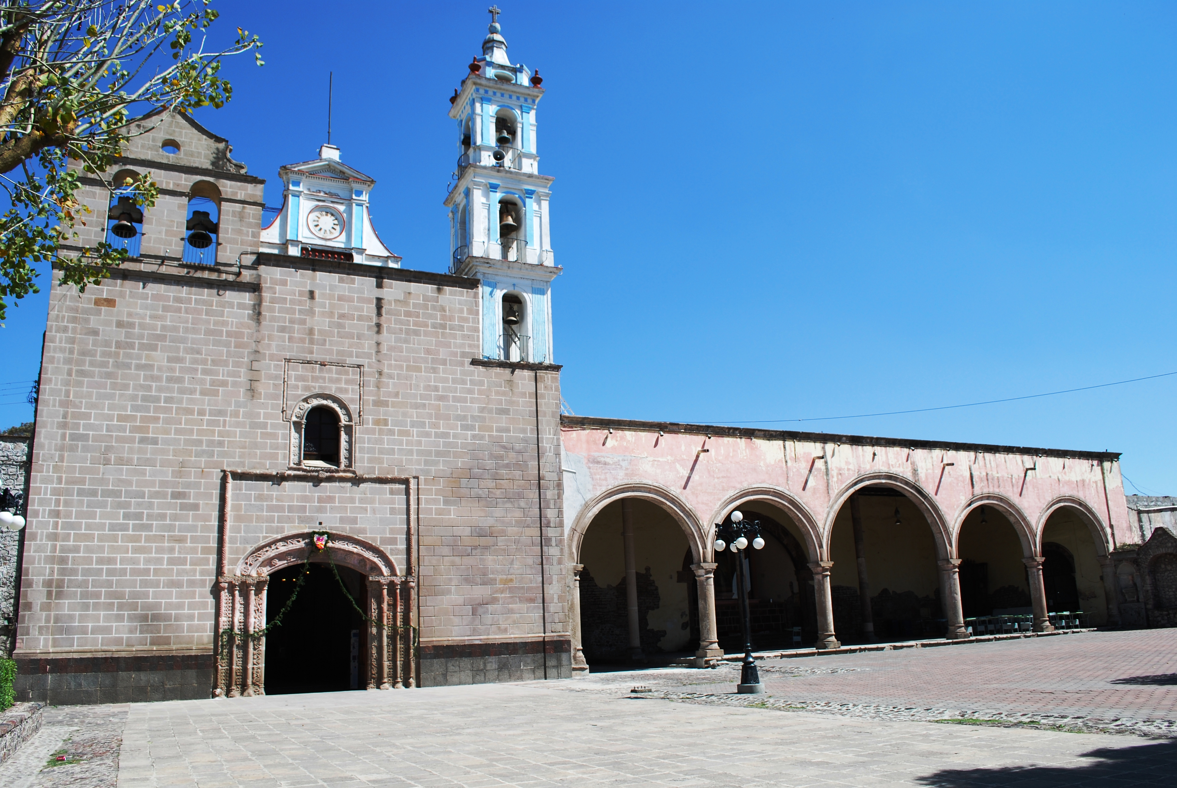 Facade and open chapel of the Parish of the Purisima Concepcion in Otumba, Mexico State